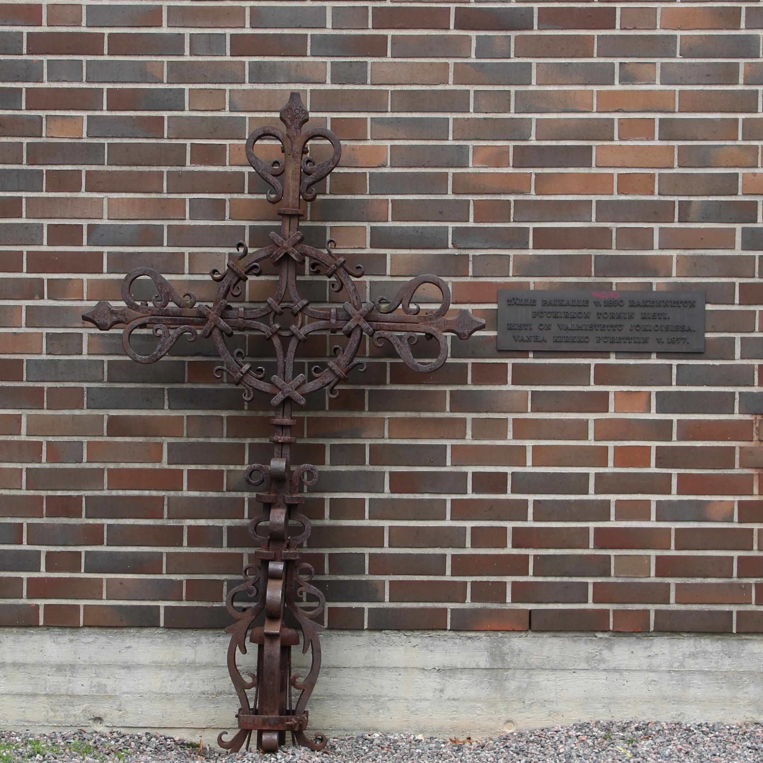 Church of The Cross, Lahti, Finland. Designed by architect Alvar Aalto, completed in 1978. - Iron cross of the previous church in the same site.